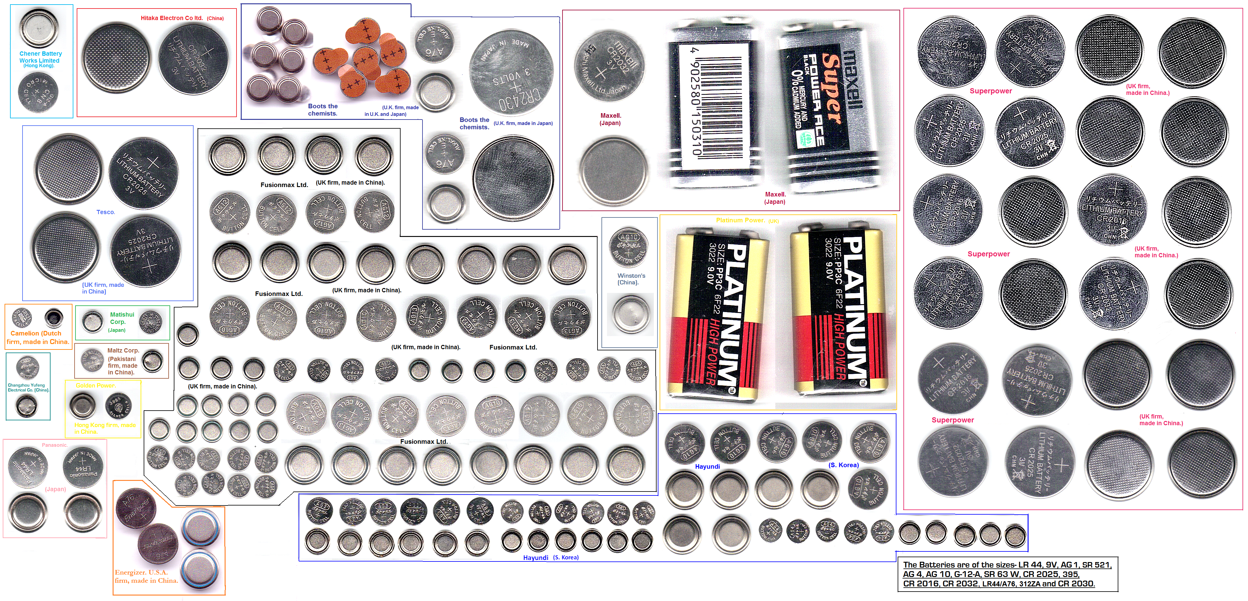 I scanned them off in my scanner after buying them at my local shop. The sizes are written as a note at the bottom of the page and are stamped on the cells by the retailers/ manufacturers. The companies who made them are identified as near by headings and stamped on the cells like wise. They are all button cells, save for 4 9V batteries I added for a size comparison. It is now completed and cleaned up!-- --Wipsenade (talk) 17:45, 6 November 2010 (UTC) This work includes material that may be protected as a trademark in some jurisdictions. If you want to use it, you have to ensure that you have the legal right to do so and that you do not infringe any trademark rights. See our general disclaimer.This tag does not indicate the copyright status of the attached work. A normal copyright tag is still required. See Commons:Licensing.